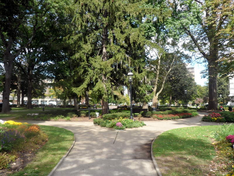 Morristown District